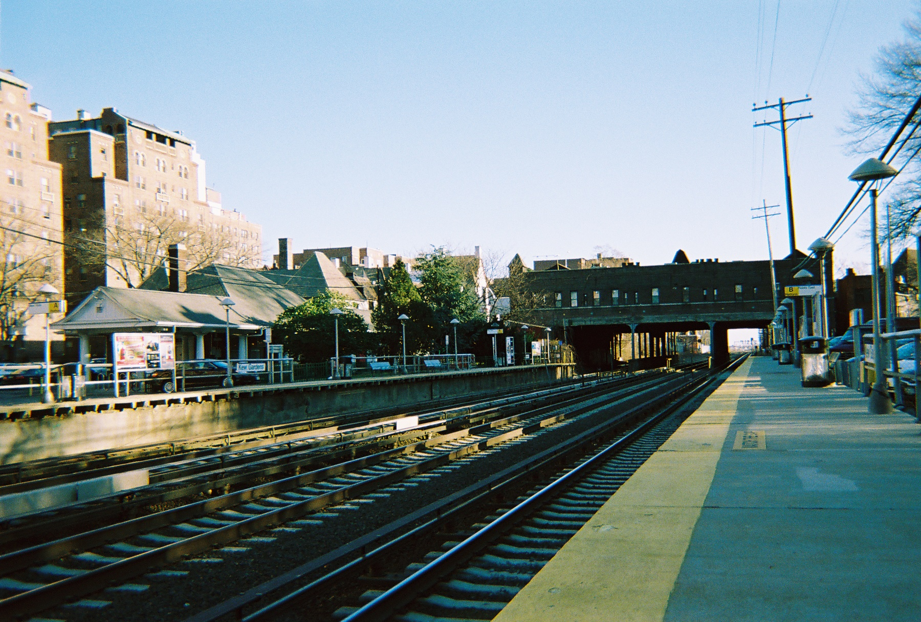 The Kew Gardens Long Island Rail Road station house(left), and the Lefferts Boulevard bridge over the tracks, which are lined with storefronts. This photographer ate at a pizzarea on this bridge while waiting for a train in the freezing cold.